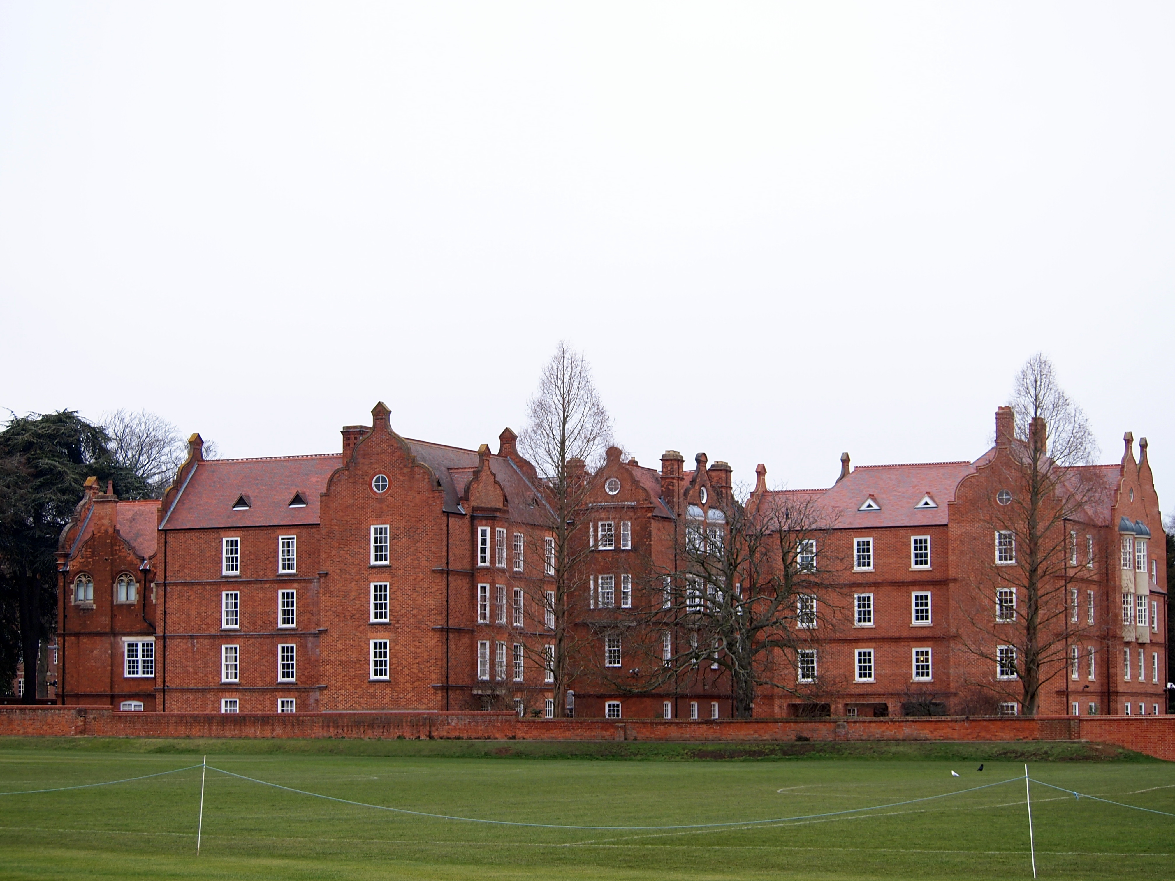 Linacre College from New College Recreation Ground, February 2012. Derivative work of this file: File:The Bamborough Building of Linacre College